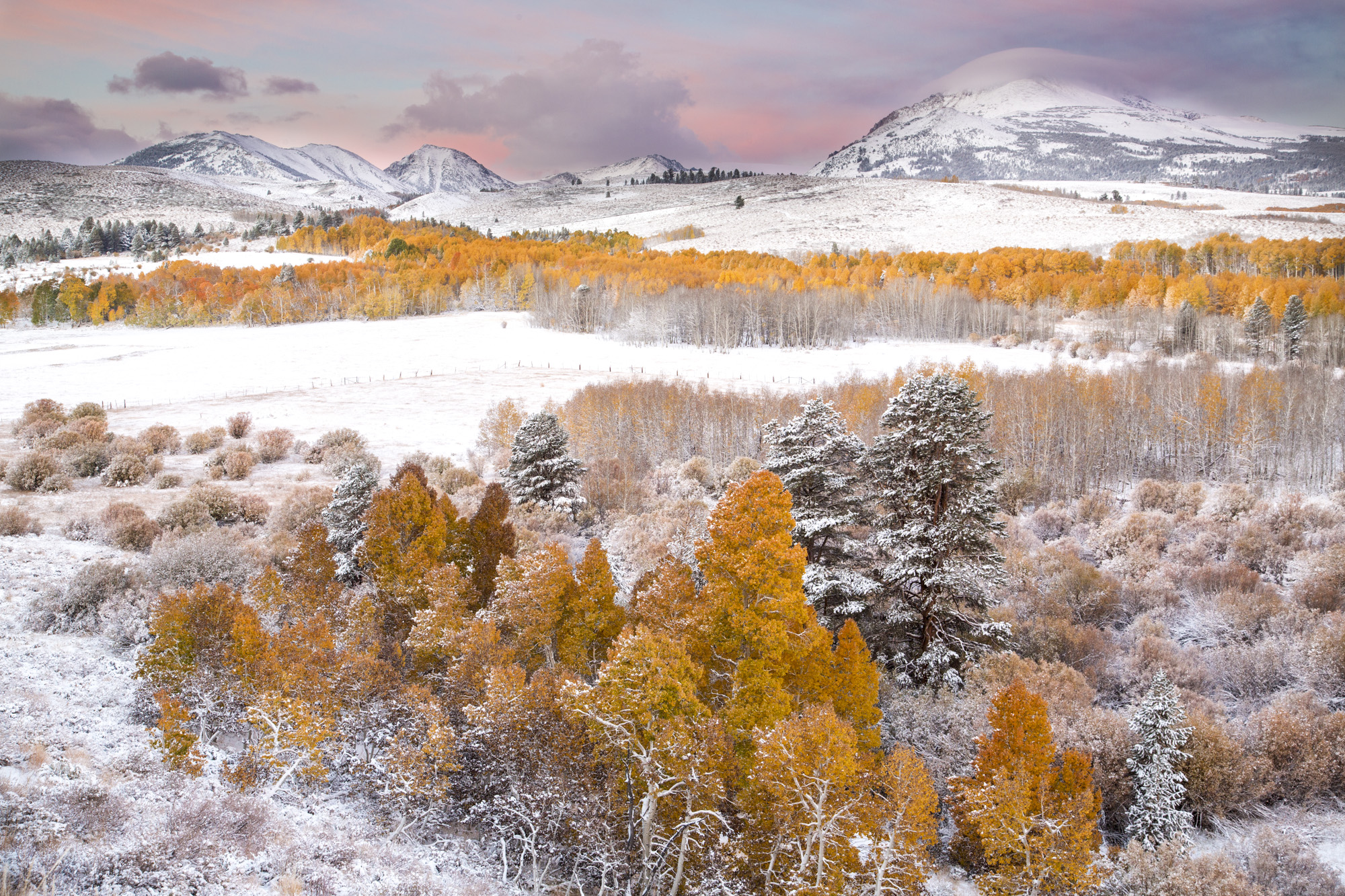 Fall foliage and snow-capped peaks make for a stunning shot of Conway Summit in California. Take a drive along the Conway Summit and experience spectacular mountains, valleys, lakes, streams and volcanic mountain chains.